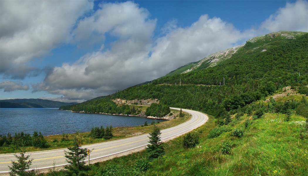 Gros Morne National Park, Western Newfoundland, Canada. Along Route 430 near Rocky Cove.